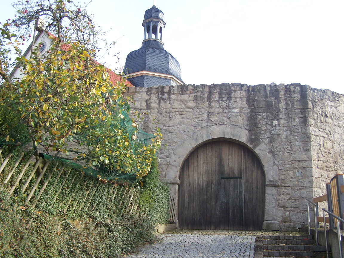 The gateway to the church.